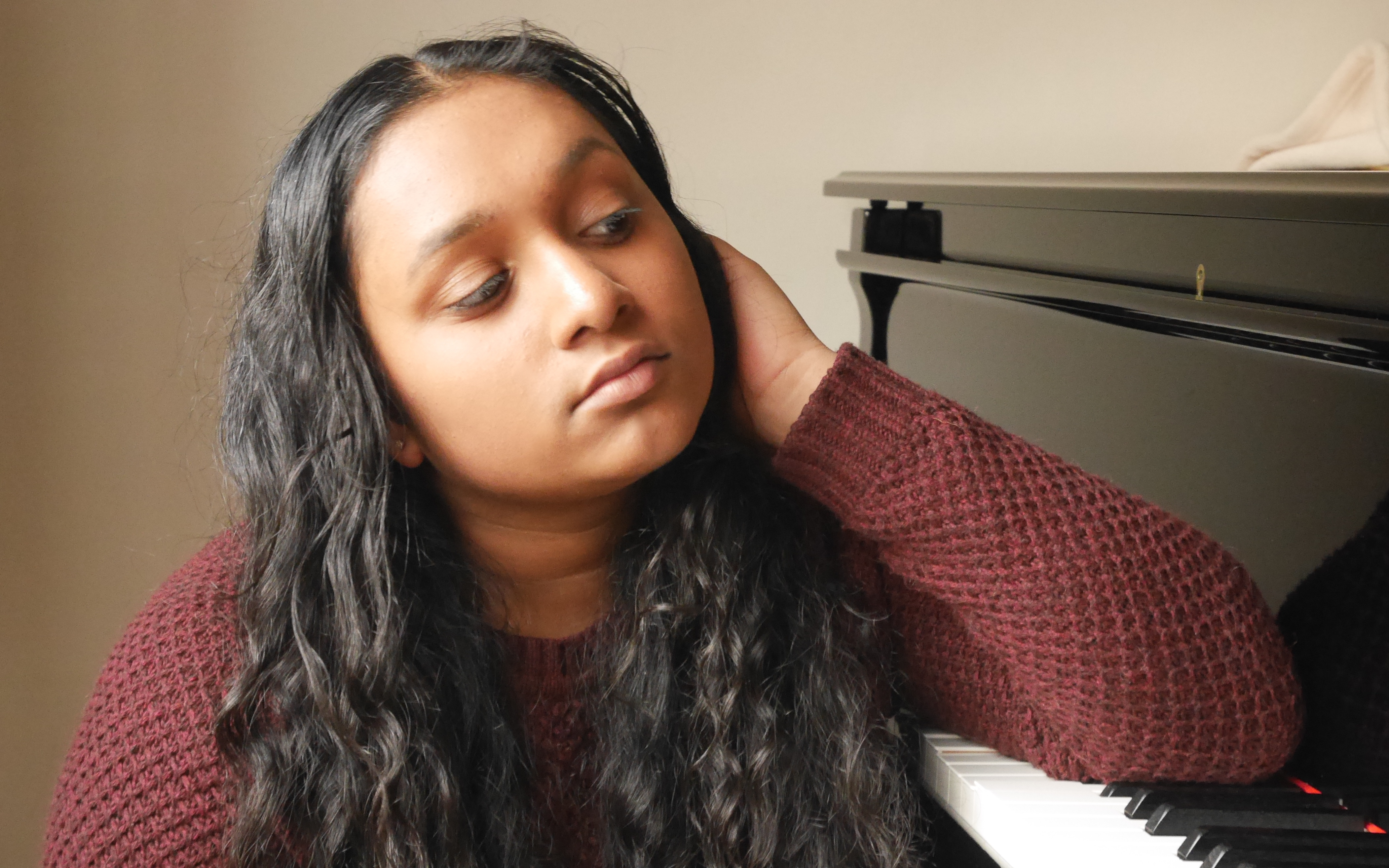 taken for the track heaven